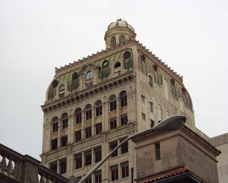 Photo showing the Security Building in Downtown Miami, centered on the top 6 floors, including those enclosed in the mansard roof.